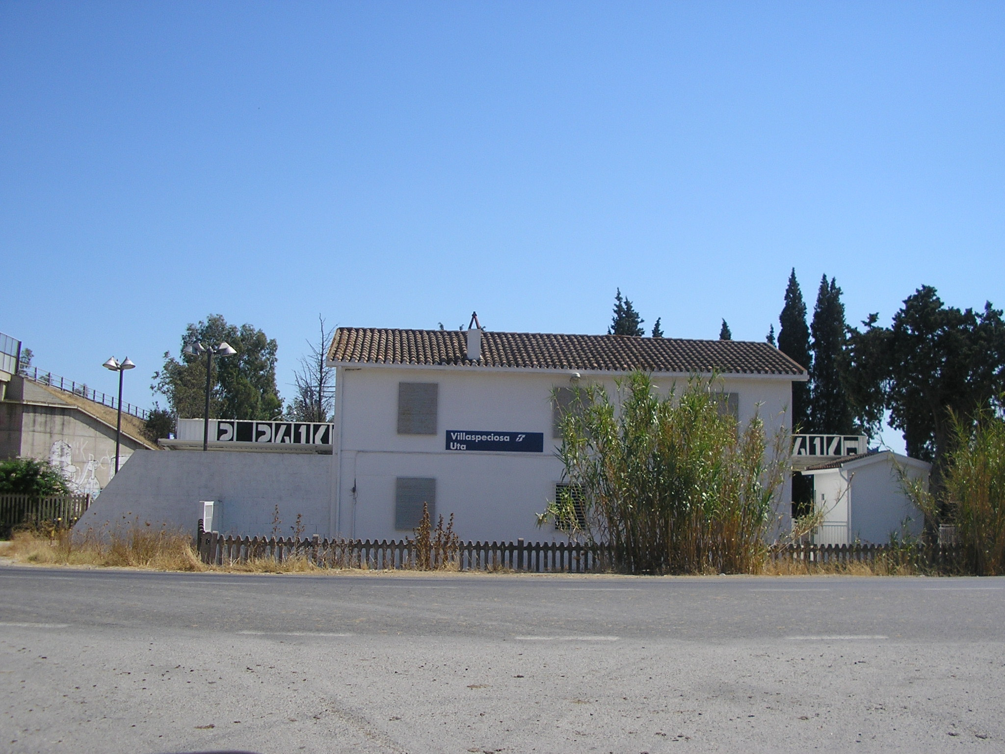 The railway halt of Villaspeciosa-Uta, seen from the SP90 road, in Sardinia, Italy